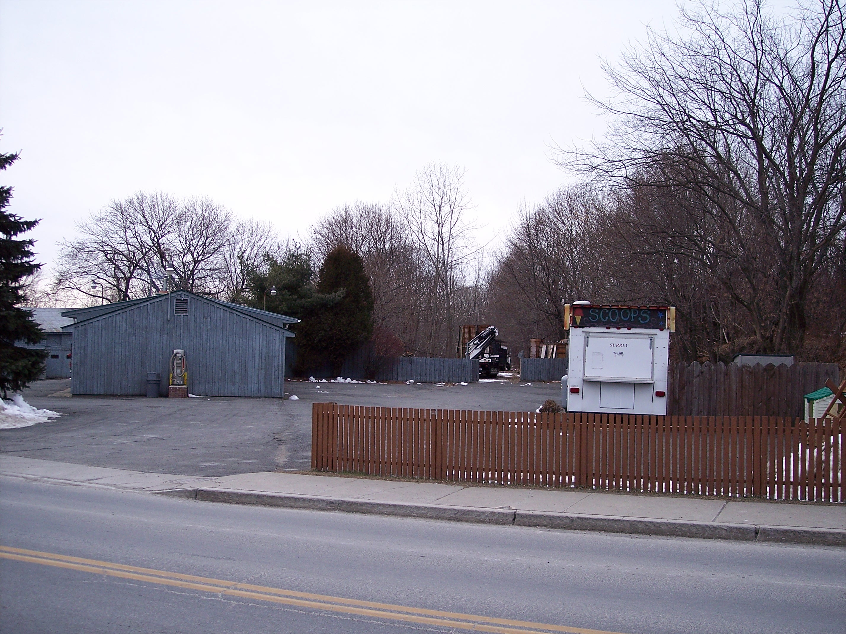 Location of the former Philmont, NY train station. Looking north.